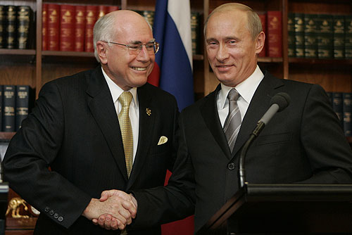 SYDNEY. Joint press conference with Australian Prime minister John Howard.